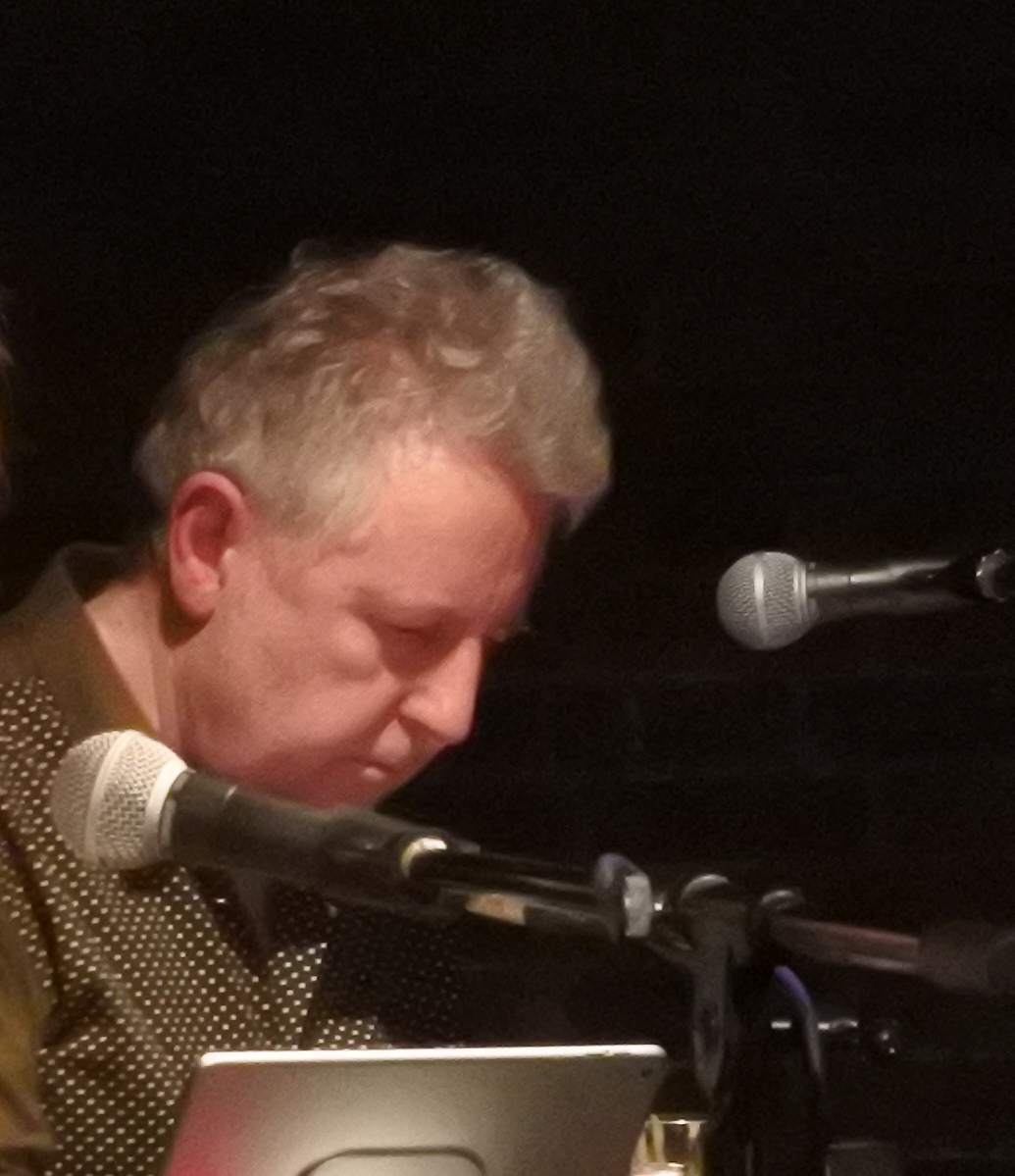 Anthony Moore with Slapp Happy at Mt. Rainer Hall, Shibuya, Tokyo, 24 February 2017